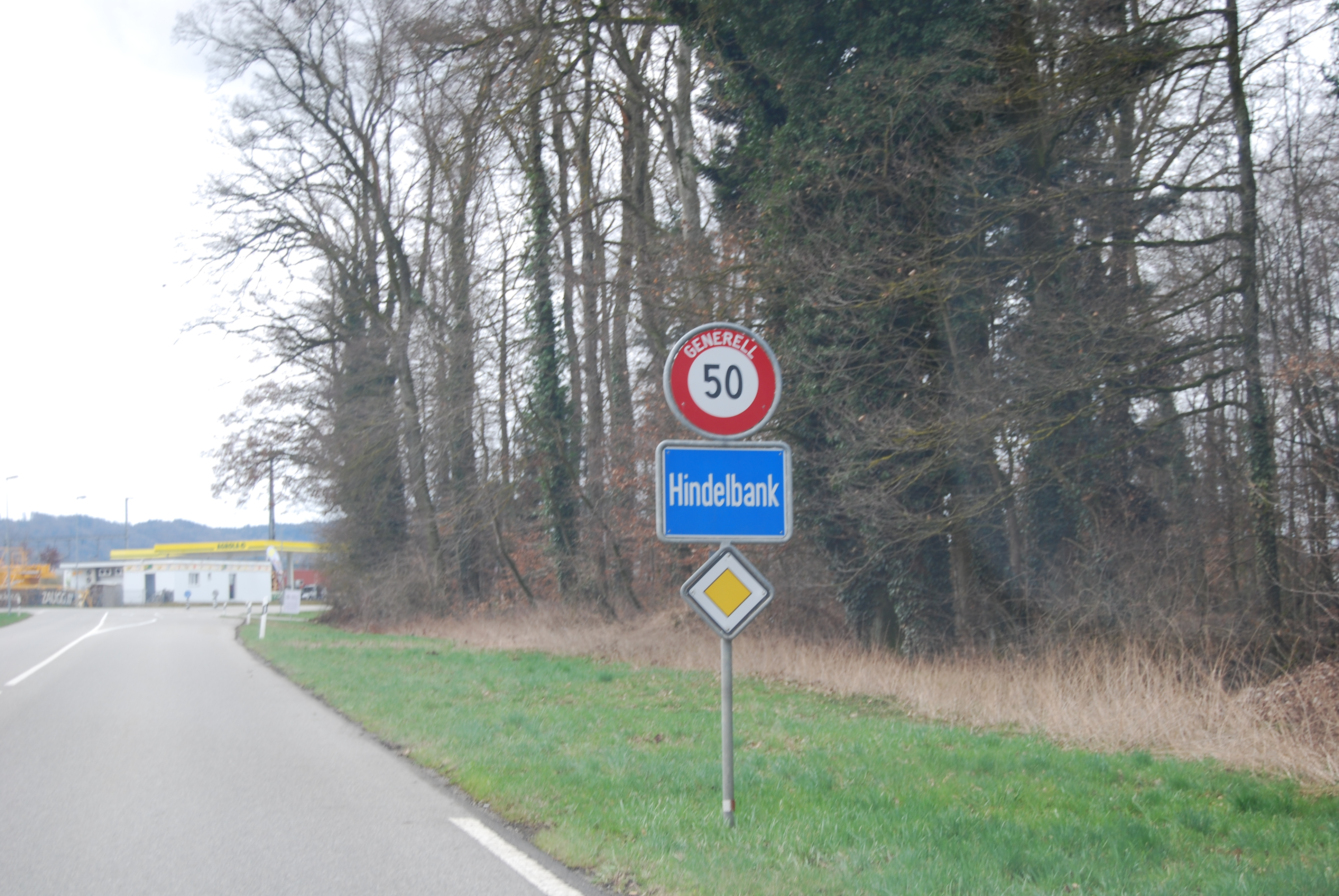 Hindelbank, canton of Bern, SwitzerlandEsperanto: Hindelbank, Kantono Berno, Svislando